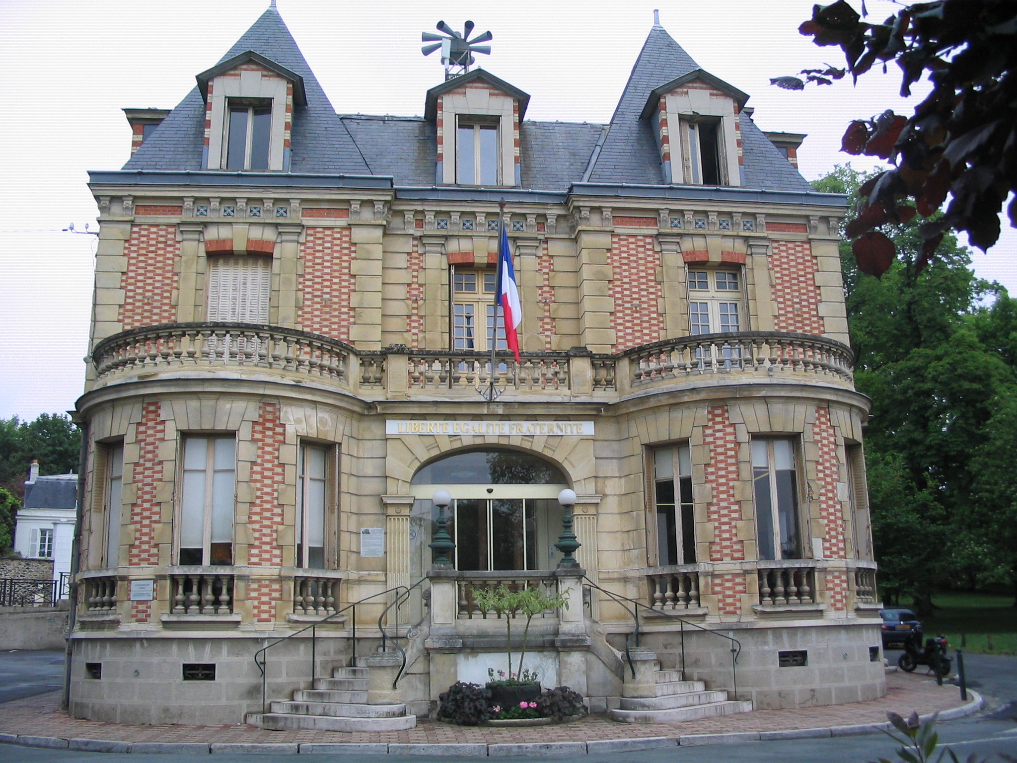 Yerres town hall, Essonne, France